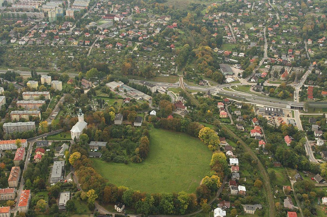 Grad in Bielsko-Biała (Stare Bielsko).